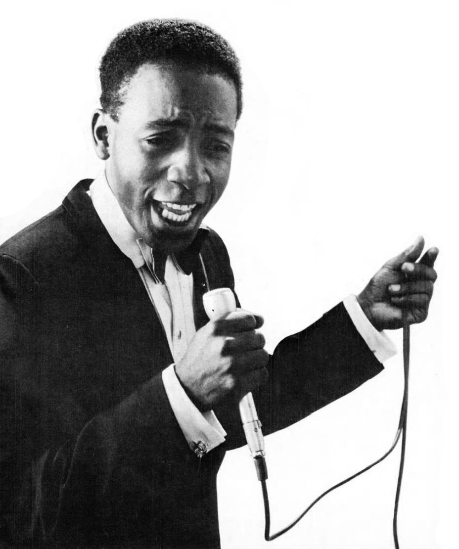 Trade ad for Bobby Hebb's single "Love Me".To better adapt it to his respective Wikipedia article, the ad was cropped and cleaned in a graphics editing program. The original can be viewed at the source below.